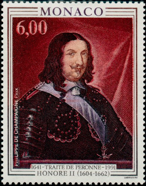 Stamp of Honore II